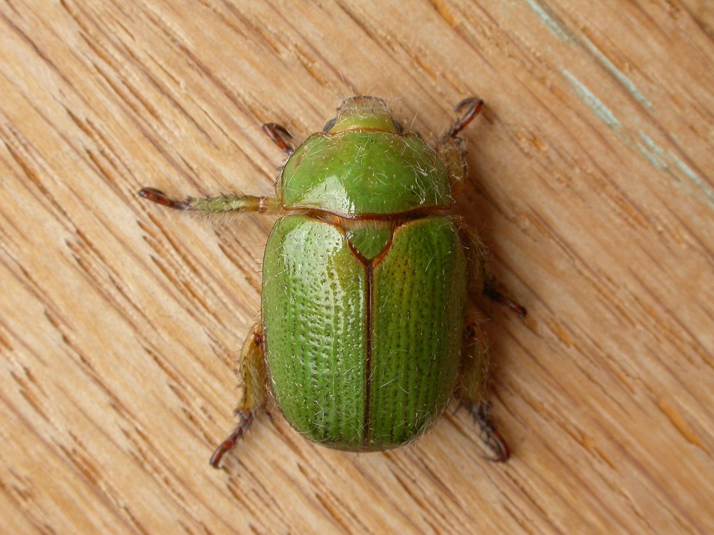 Anoplognathus prasinus (Castelnau, 1840), to MV light, Blackheath, NSW, 23/24 January 2011